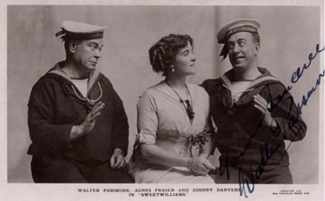 Johnny Danvers, Agnes Fraser and Walter Passmore in 'Sweet Williams' (1911-12)